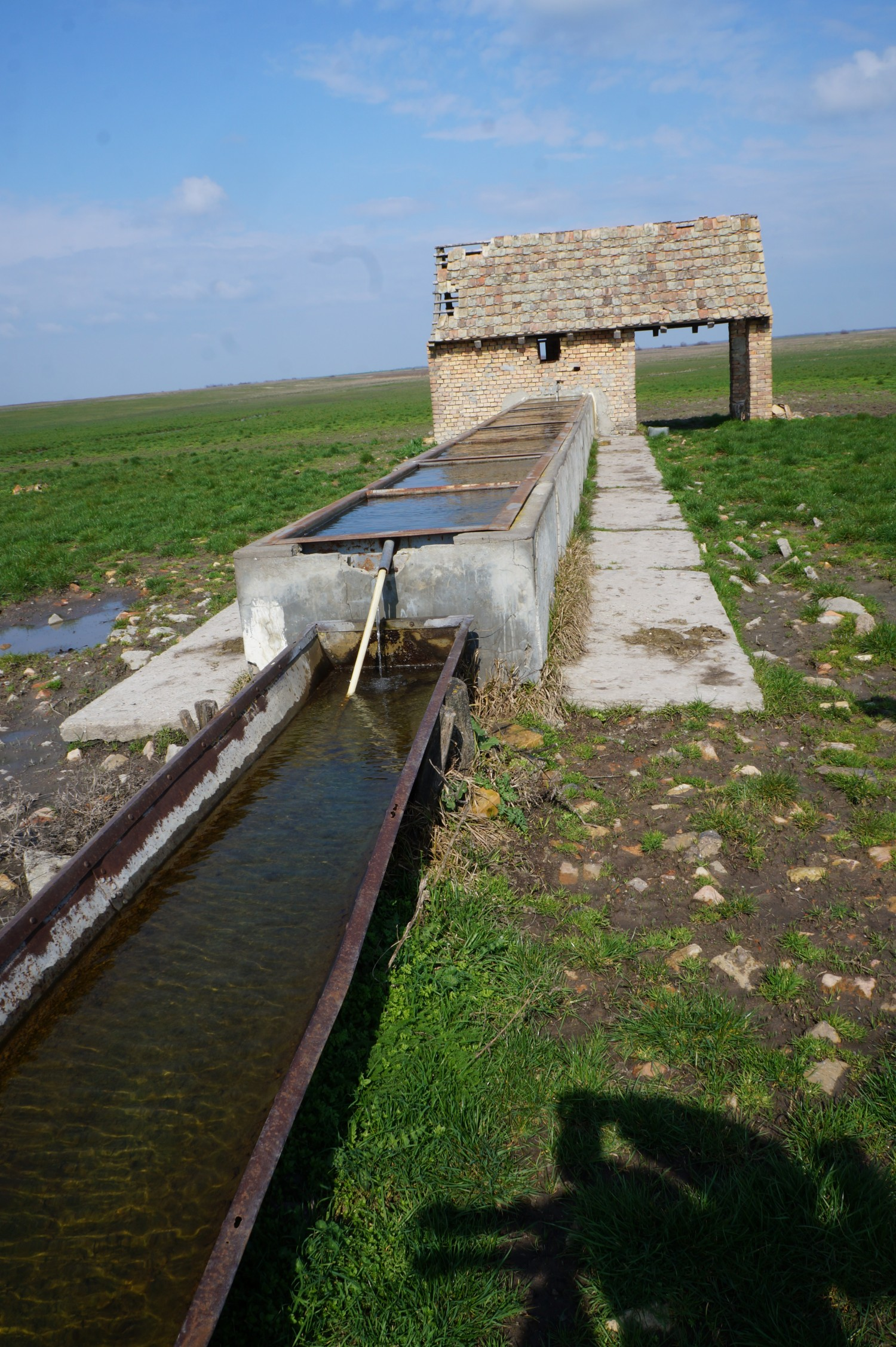 Well in the pasture. Siget, Banat Ово је фотографија заштићеног природног добра у Србији под шифром: РП21This is a a photo of a natural area in Serbia with ID: РП21